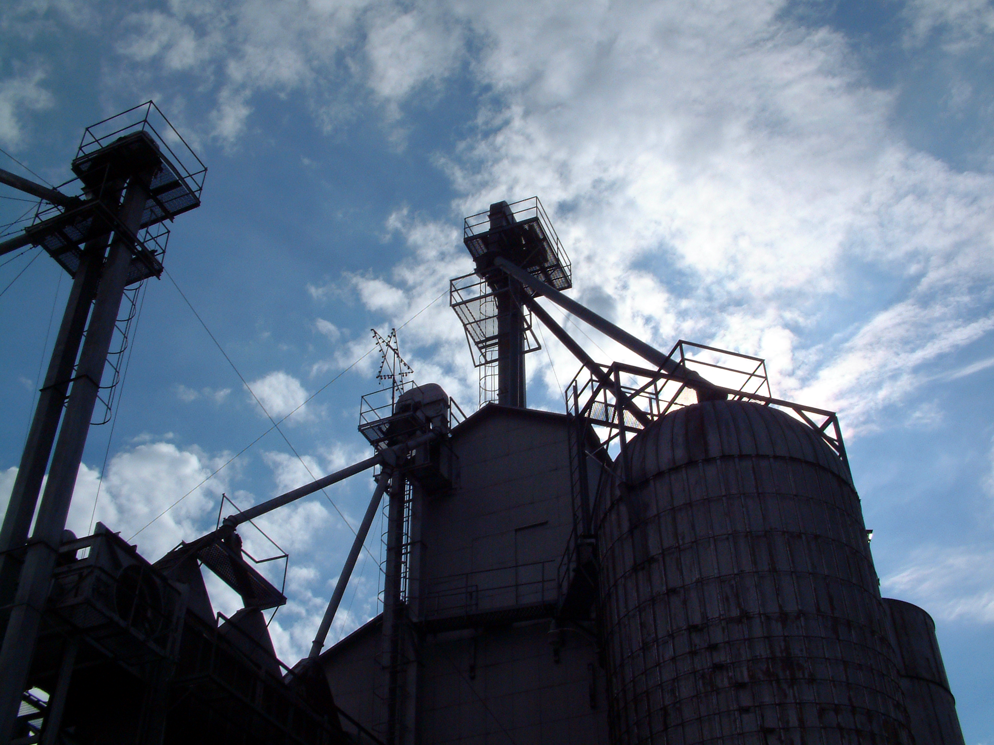 The grain elevators at Claytonville, Illinois. Photo looks generally southwest.